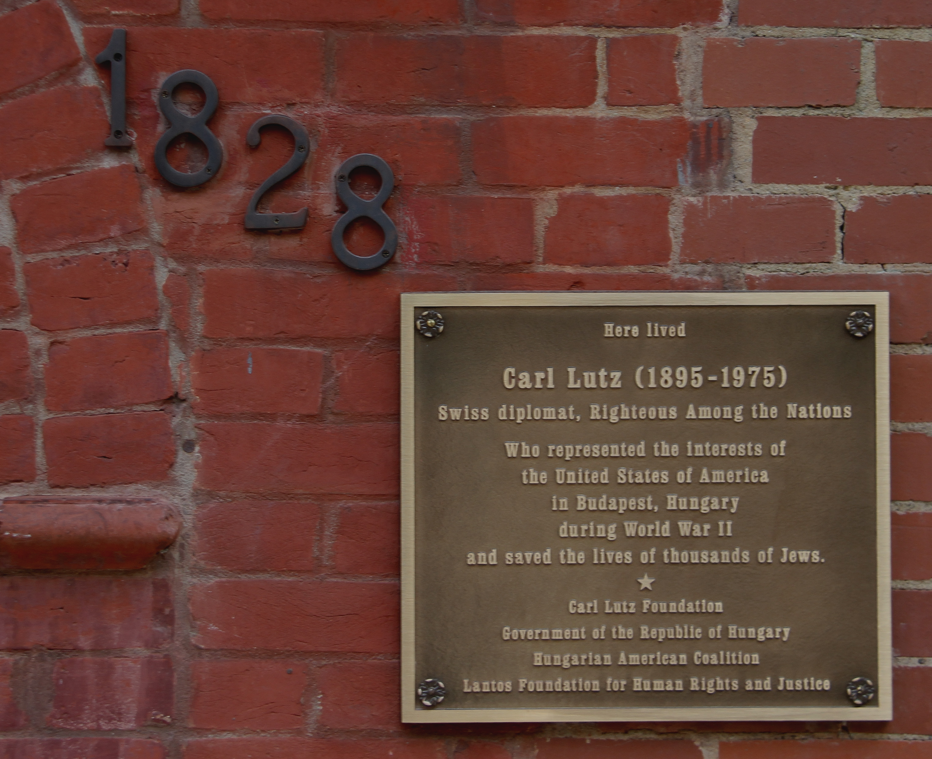 1828 Corcoran St. NW...Carl Lutz (b. Walzenhausen, 30 March 1895; d. Berne,12 February 1975) was the Swiss Vice-Consul in Budapest, Hungary from 1942 until the end of World War II. He helped save the lives of tens of thousands of Jews from deportation to Nazi Extermination camps during the Holocaust. He was awarded the title of Righteous Among the Nations by Yad Vashem in 1965. This plaque is on Carl Lutz's Residence in Washington, DC unveiled On June 24 by Dr. János Martonyi, Foreign Minister of the Republic of Hungary Source